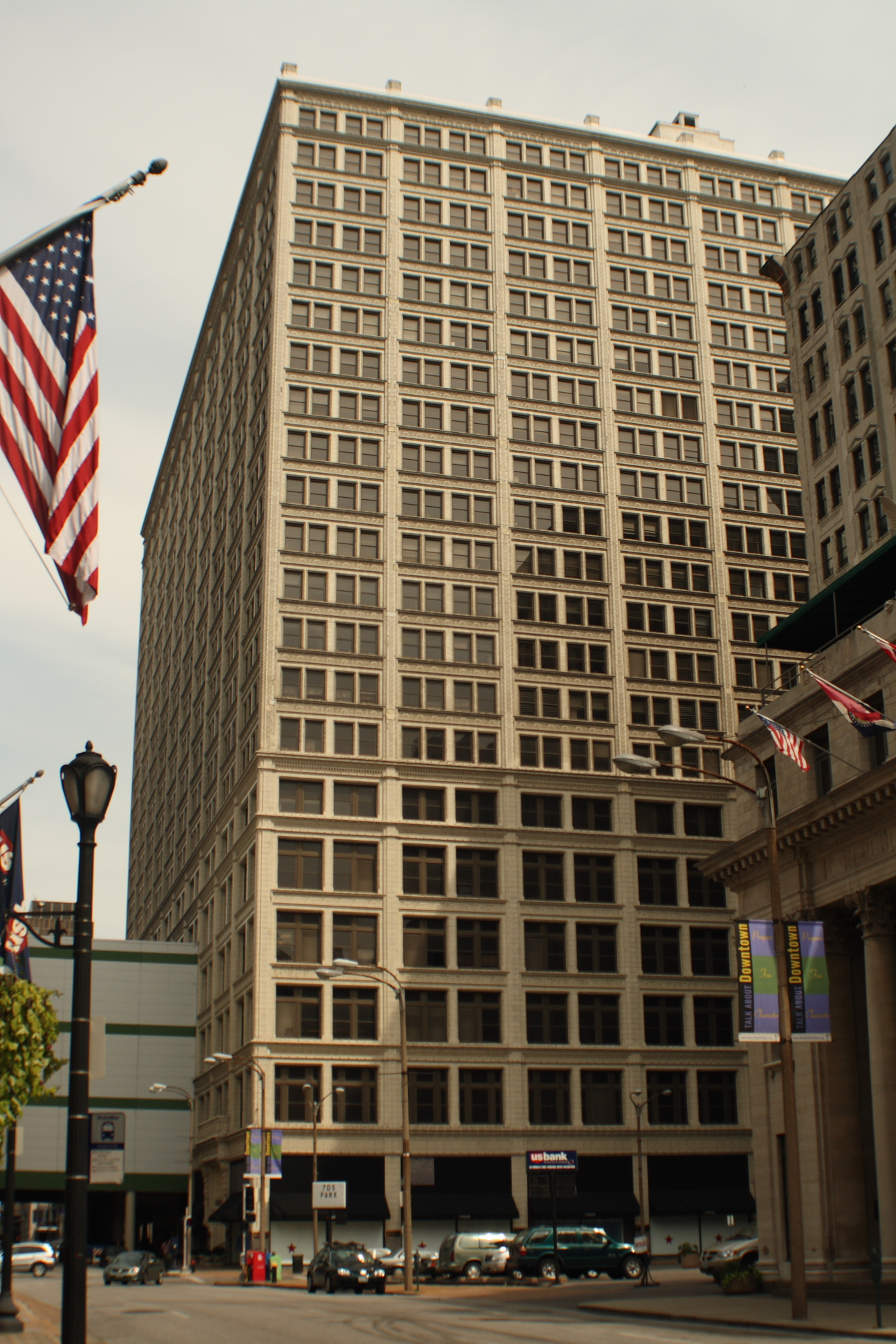 Railway Exchange Buidling, Downtown St Louis taken from Locust Street